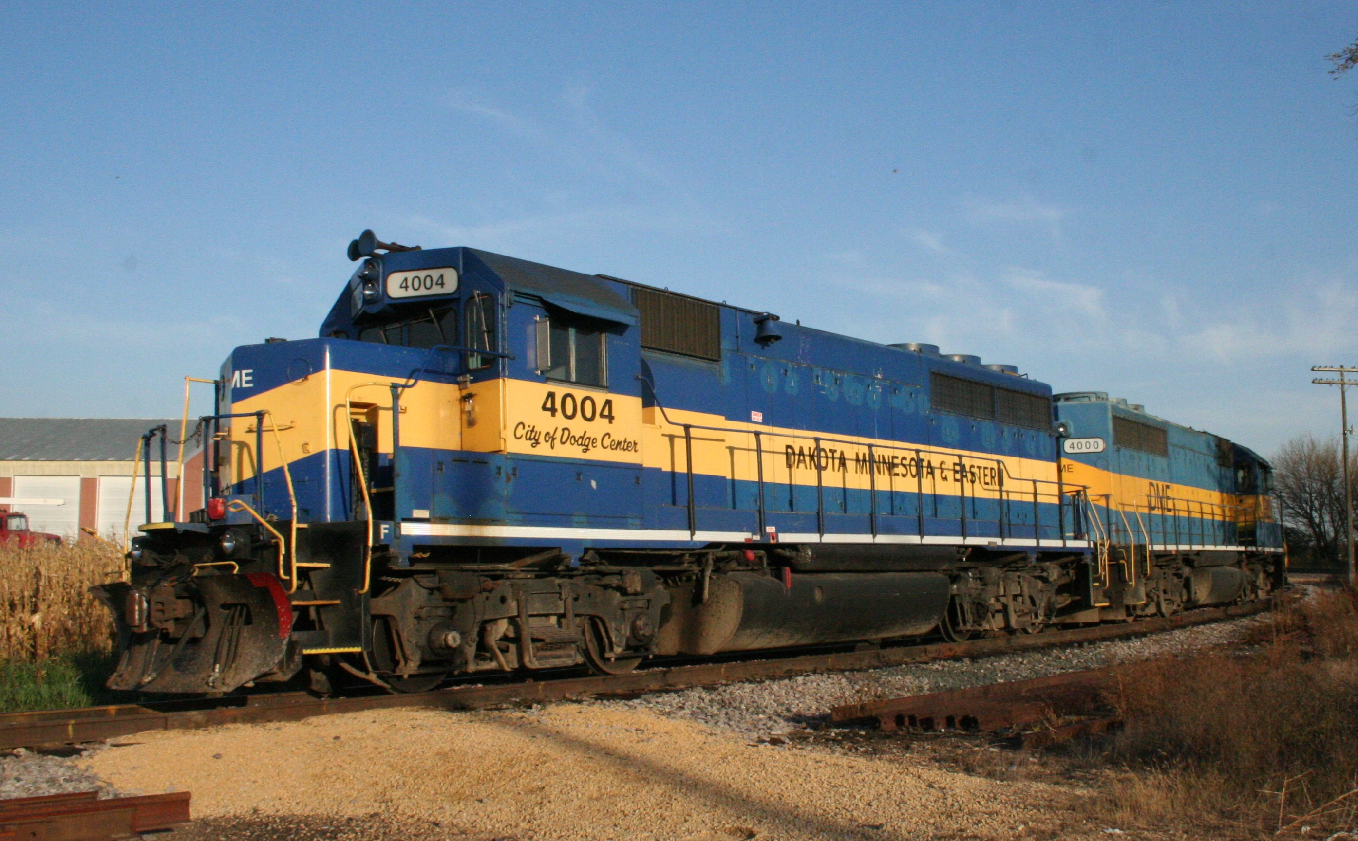 Dakota, Minnesota and Eastern Railroad locomotives 4004 and 4000 at Davis Junction, Illinois